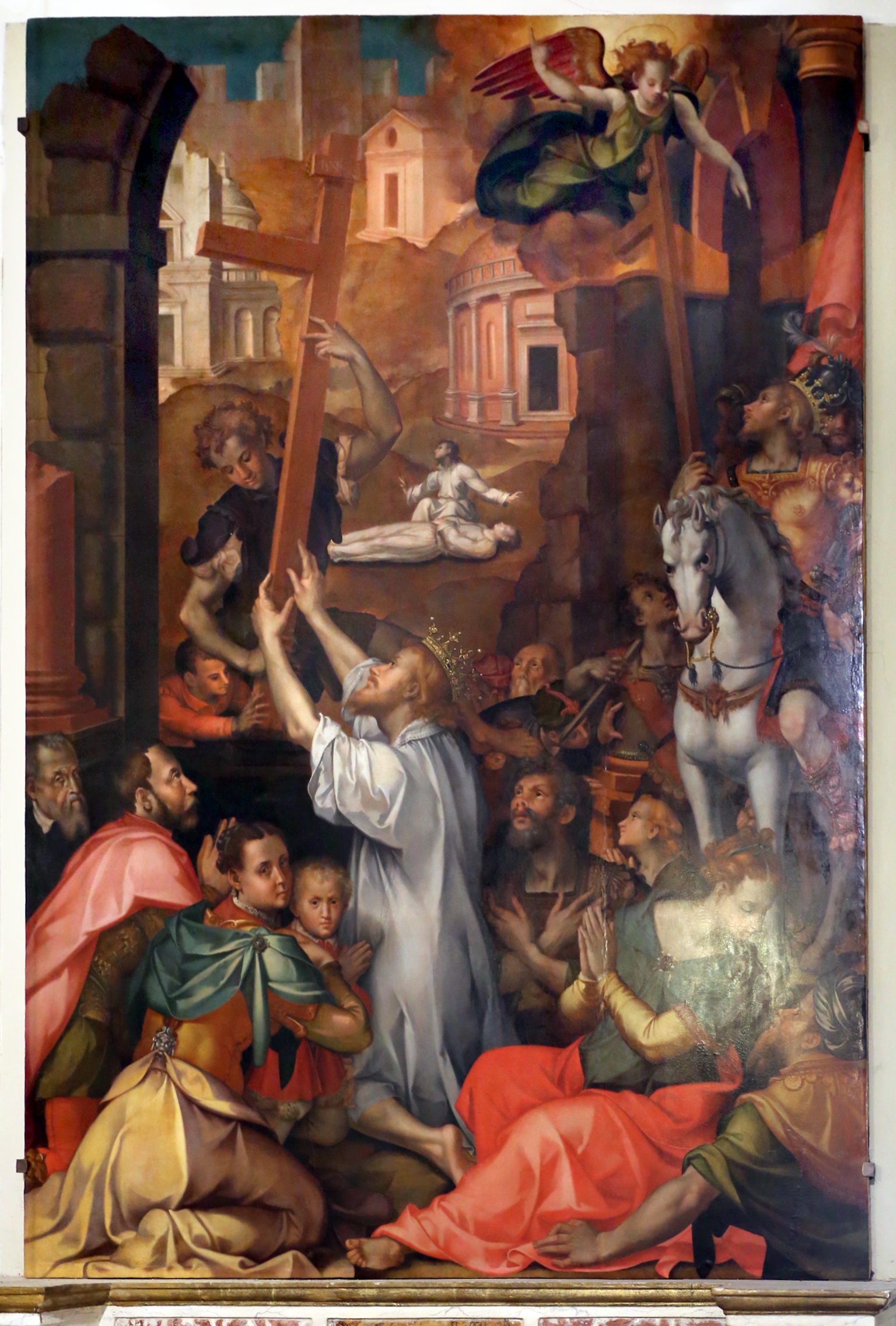 Pieve di Santa Maria (Olmi)